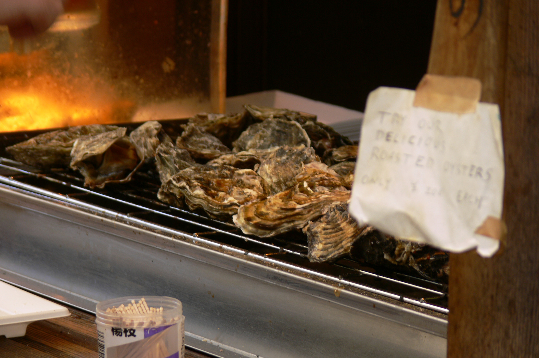 Tsukushima roast oyster